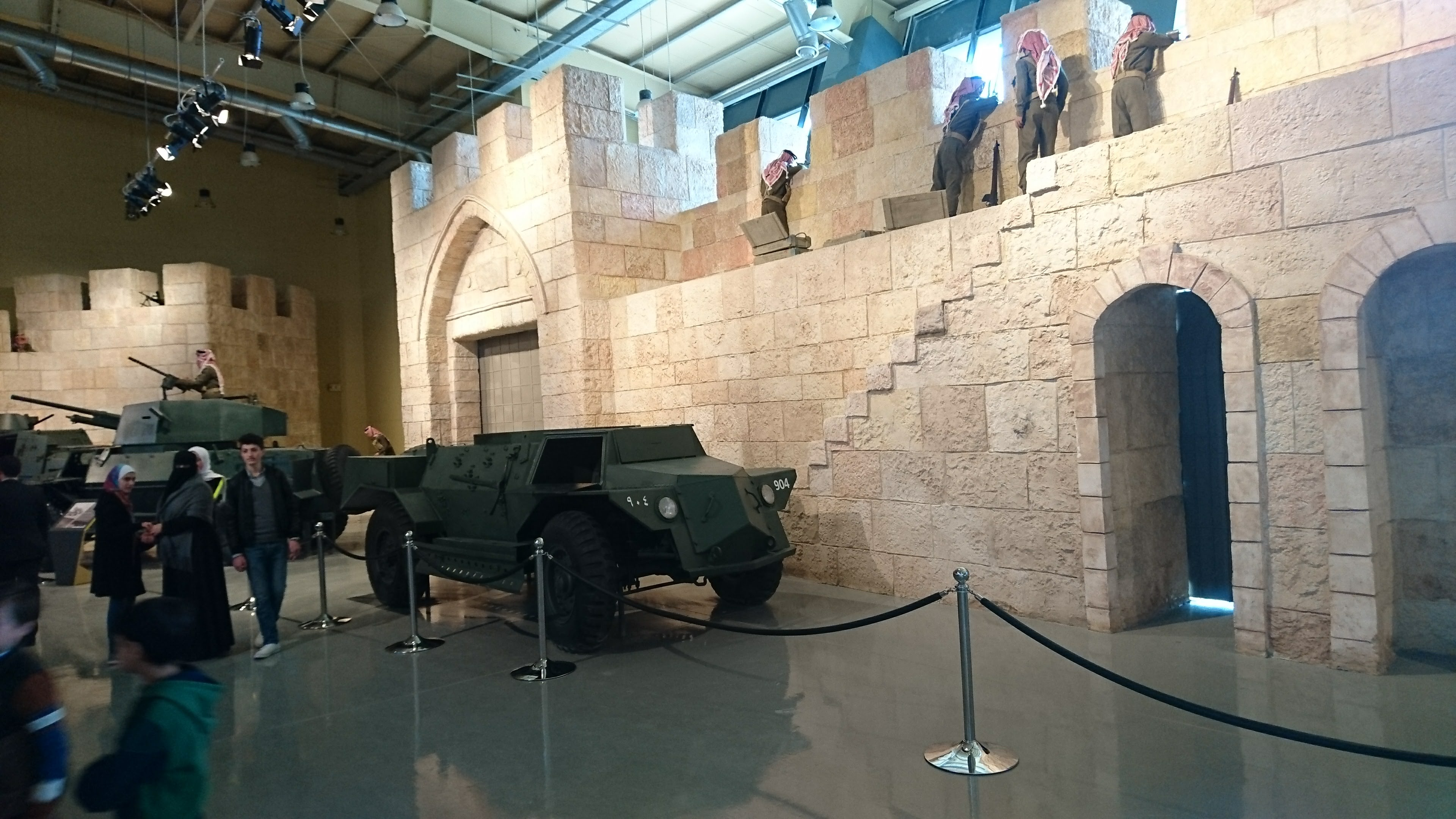 Royal Tank Museum, Amman - Jordan